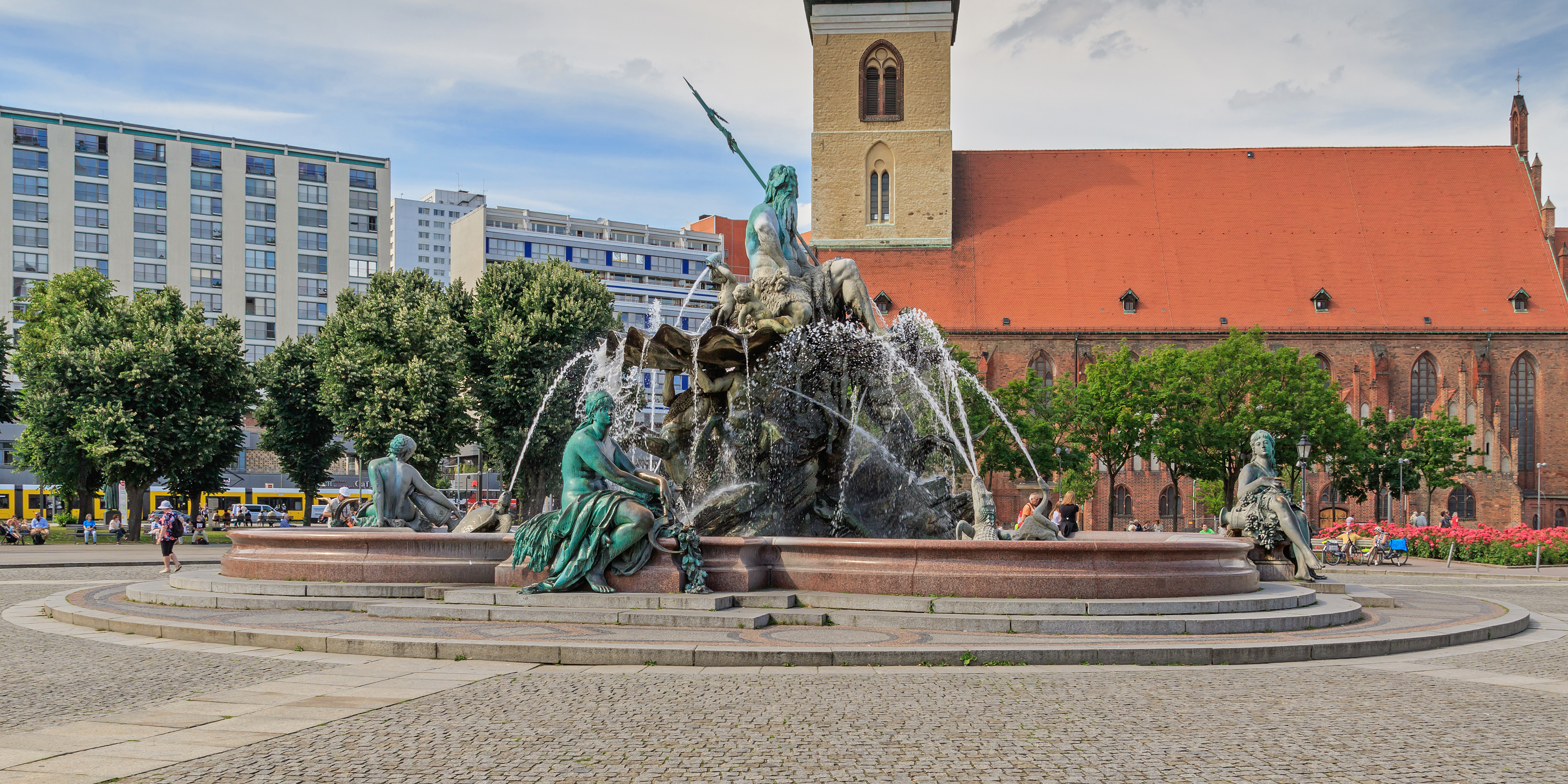 Neptune Fountain in Berlin-Mitte (Germany)